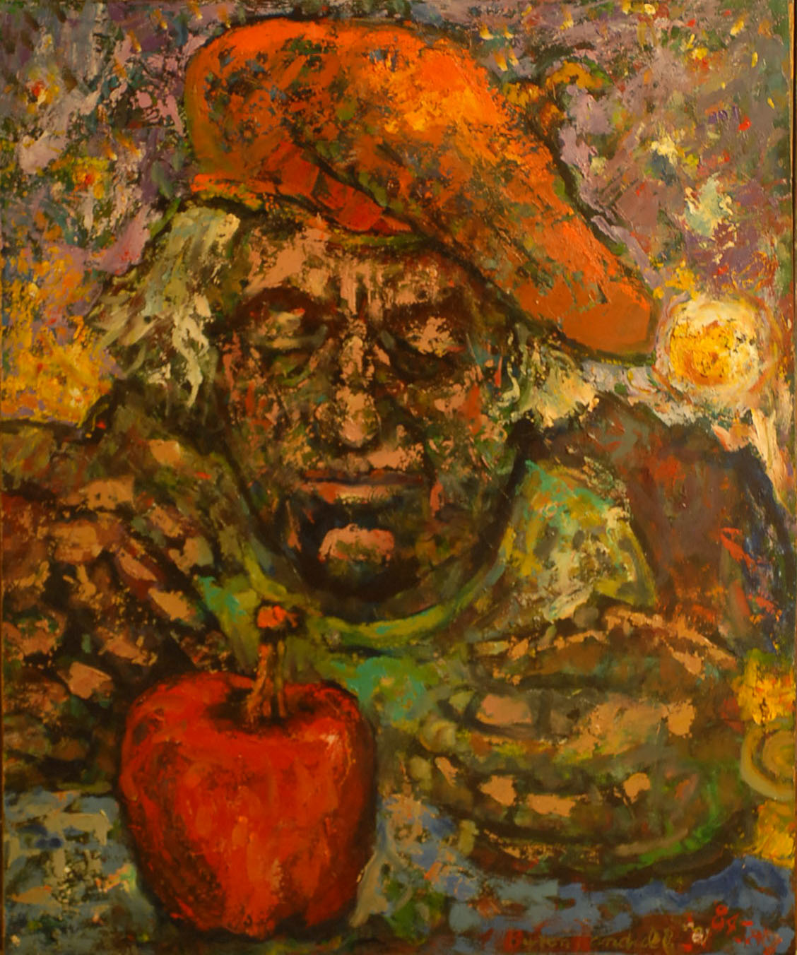 oil painting by Byron Randall